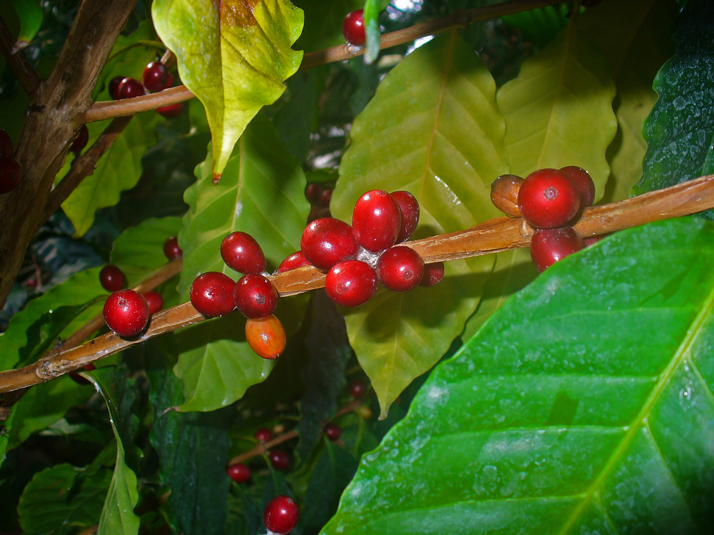 Coffea arabica, Rubiaceae, Arabica Coffee, Mountain Coffee, fruits; Botanical Garden KIT, Karlsruhe, Germany. The unroasted dried beans are used in homeopathy as remedy: Coffea (Coff.)